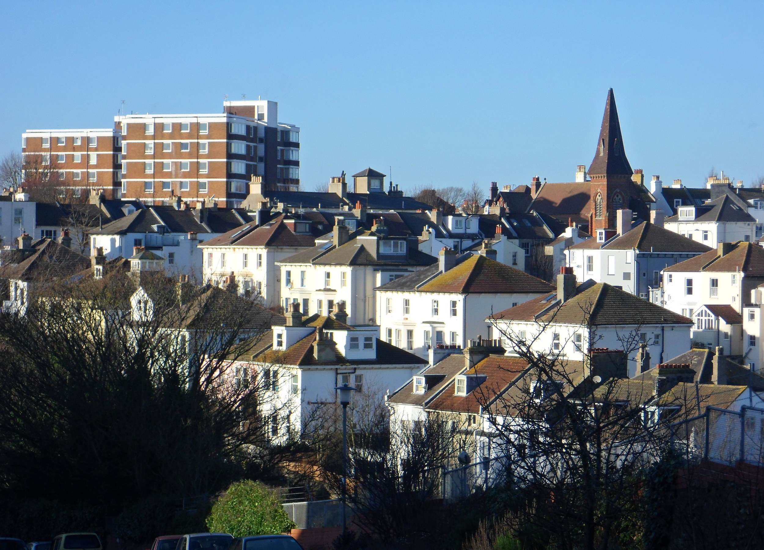 Views of Brighton and Hove #7. This view looks northwestwards from the north end of Howard Place, above the entrance to Brighton station. Features (click to enlarge): The villas in the midground are on the steeply sloping York Villas, developed between 1865 and 1869. The flats on the left, Prestonville Court, are at the junction of Old Shoreham Road and Prestonville Road. The spire belongs to St Luke's Church, an Anglican church built in 1875 to serve the area. - Google Maps - Google Earth